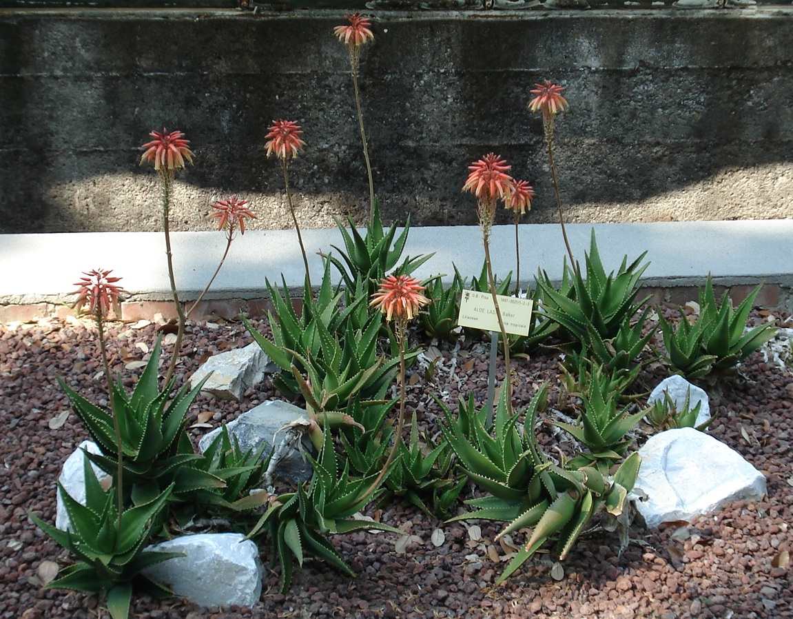 Aloe brachystachys (syb. Aloe lastii) cultivated in Pisa Botanical Garden